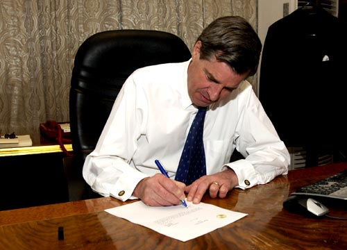 Ambassador L. Paul Bremer signs the Iraqi Sovereignty document to transfer full governmental authority to the Iraqi Interim Government in Baghdad, Iraq, June 28, 2004. U.S. Air Force photo by Staff Sgt. Ashley Brokop.